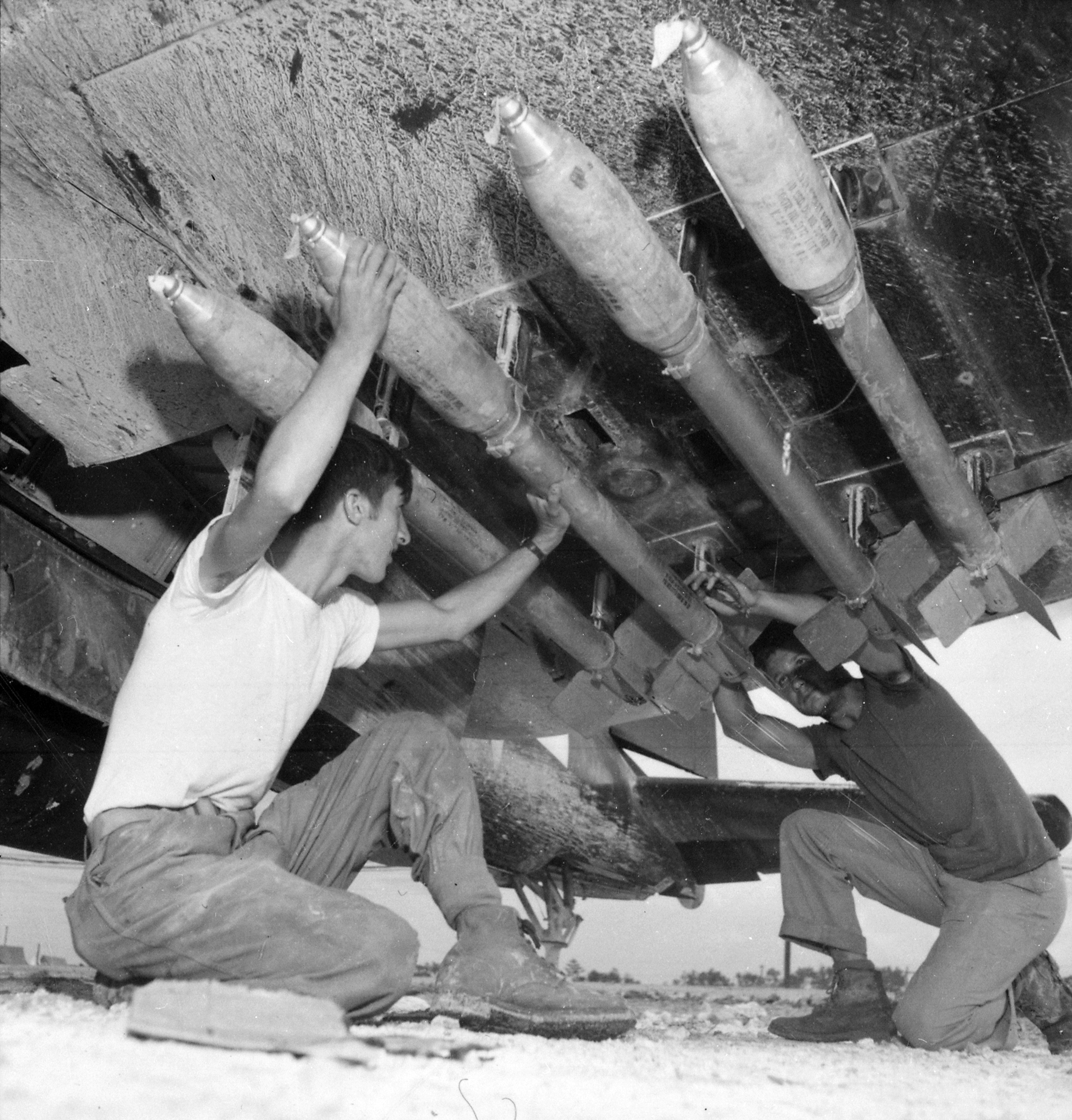 The caption from the archives states: Five-inch (12.7 cm) rockets being loaded under the wing of an Vought F4U Corsair of MAG-33. Just before take-offs, the safety pins are removed and the rockets are ready for charging. Okinawa, Japan, ca. June 1945. This looks more like a FFAR (Forward Firing Aircraft Rocket) than an HVAR (HIgh Velocity Aircraft Rocket). Versions of the FFAR had a 5 inch warhead attached to a 3.5 inch rocket, where the HVAR had a uniform 5 inch diameter.